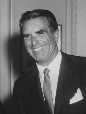 President John F. Kennedy meets with newly-appointed Ambassador of Spain, Antonio Garrigues y Díaz-Cañabate (right); the ambassador presented his credentials to President Kennedy. Oval Office, White House, Washington, D.C.